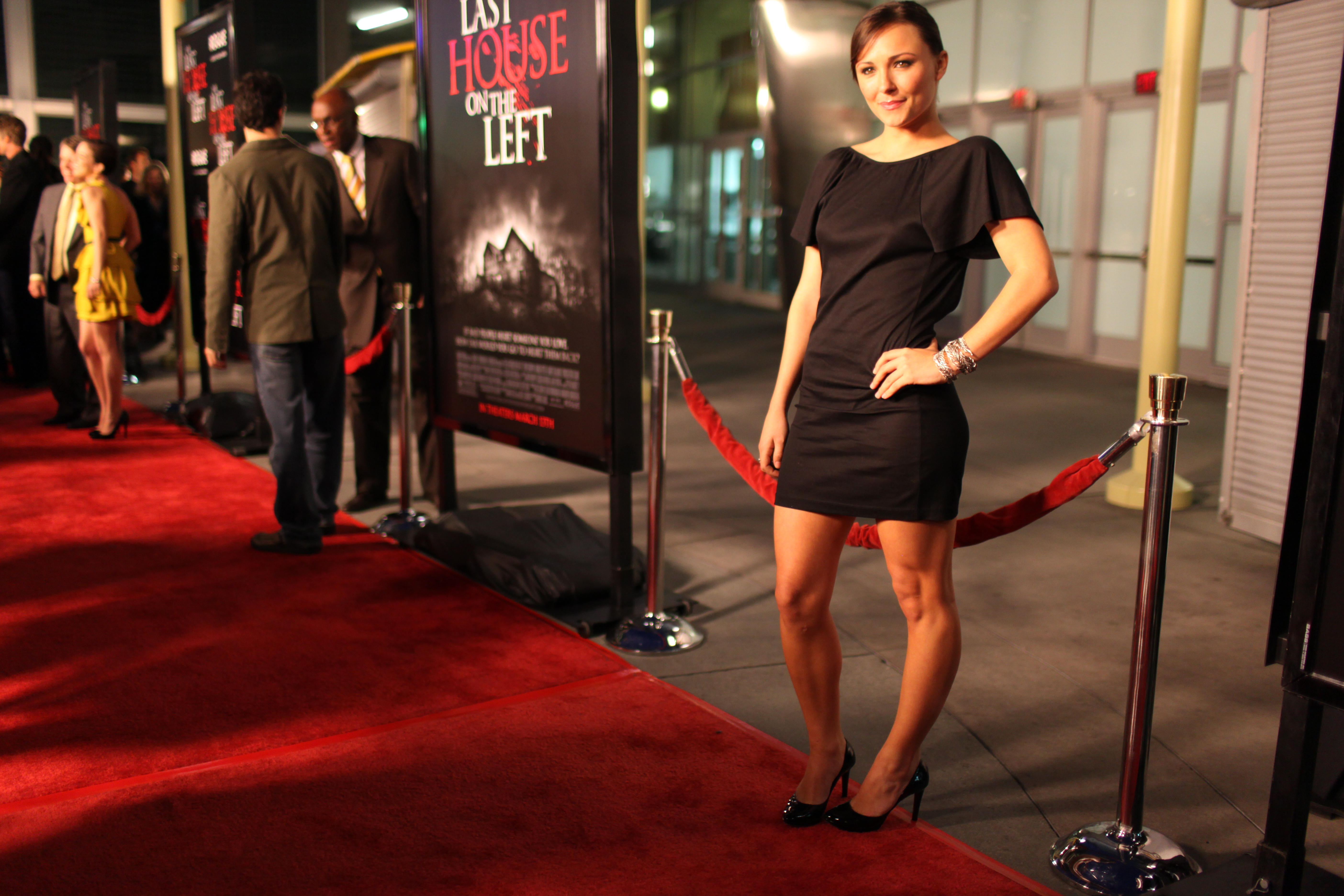 Briana Evigan at the Last House on Left premiere, 2009